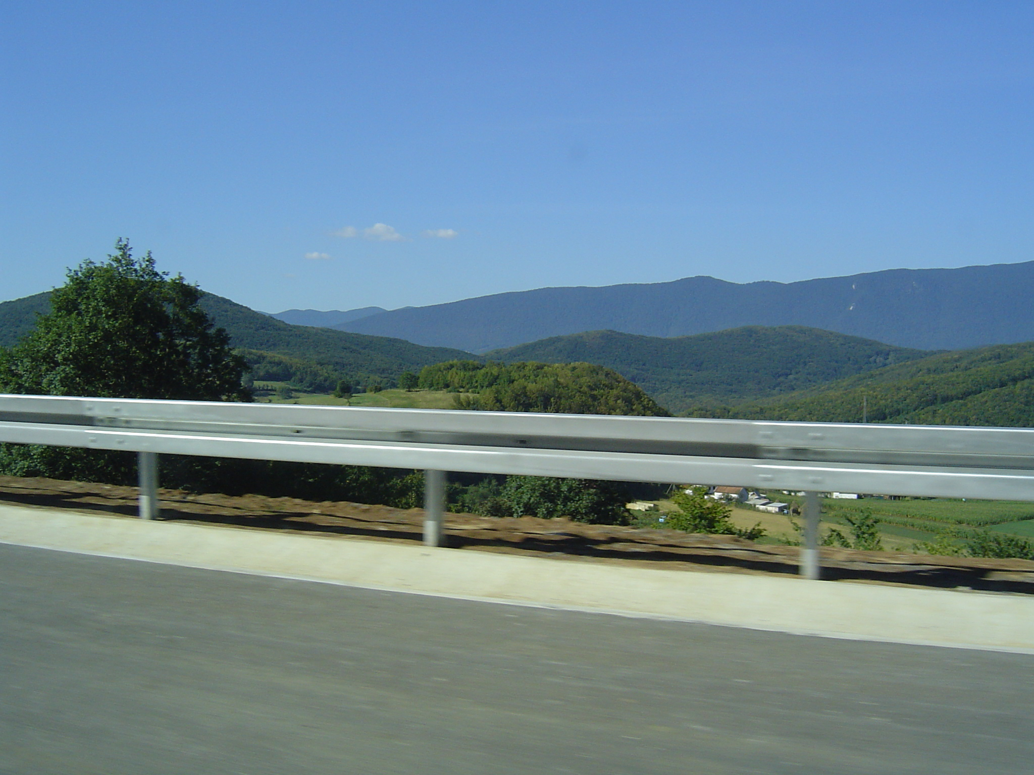 View from the croatian highway 50km north of tunnel Sveti Rok